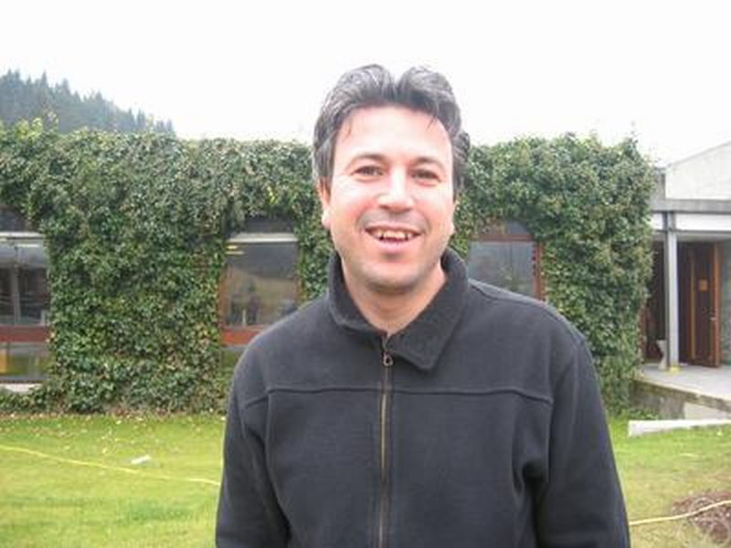 Nizar Touzi, Oberwolfach 2008